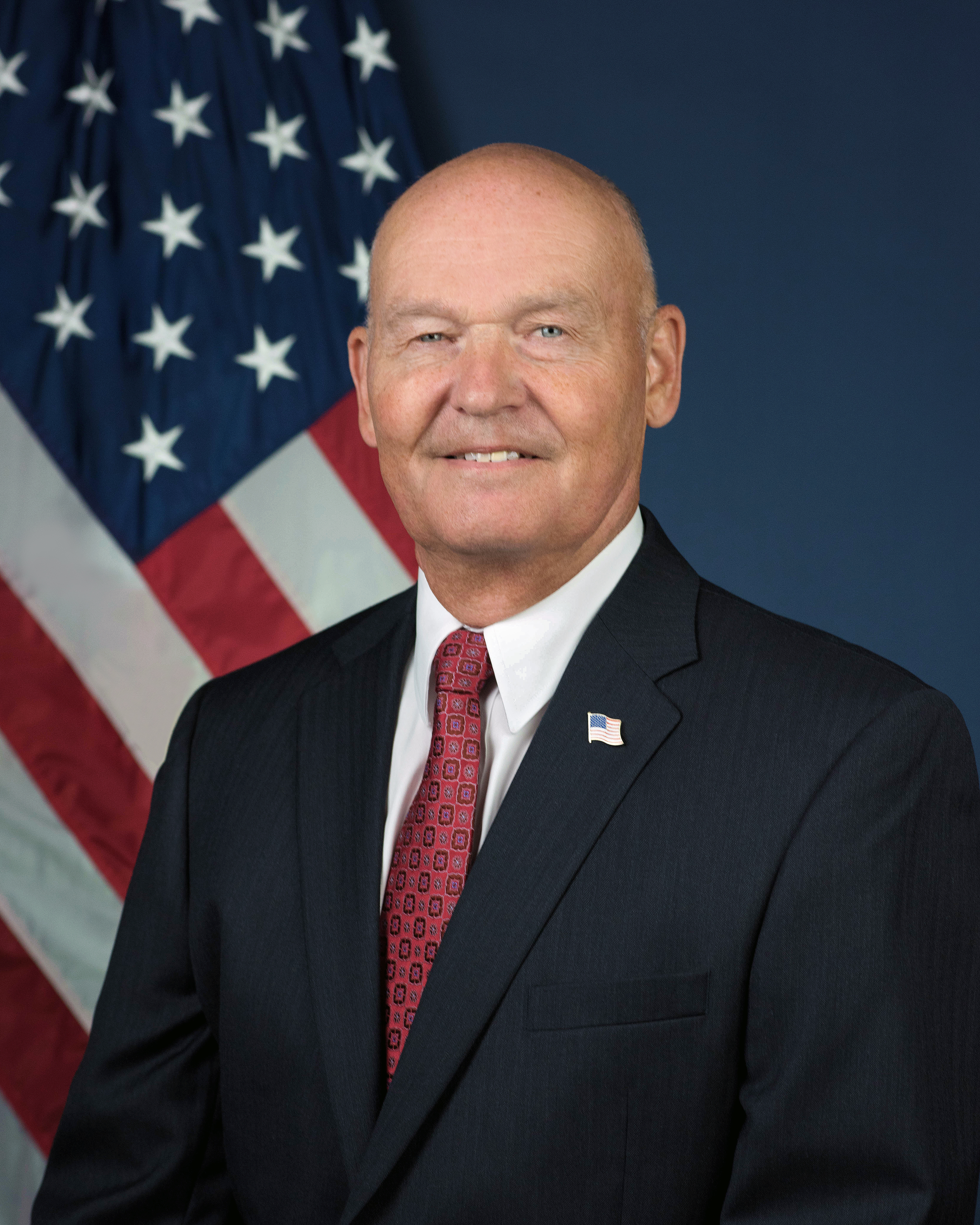 Mark H. Buzby, Maritime Administrator during the Trump Administration.